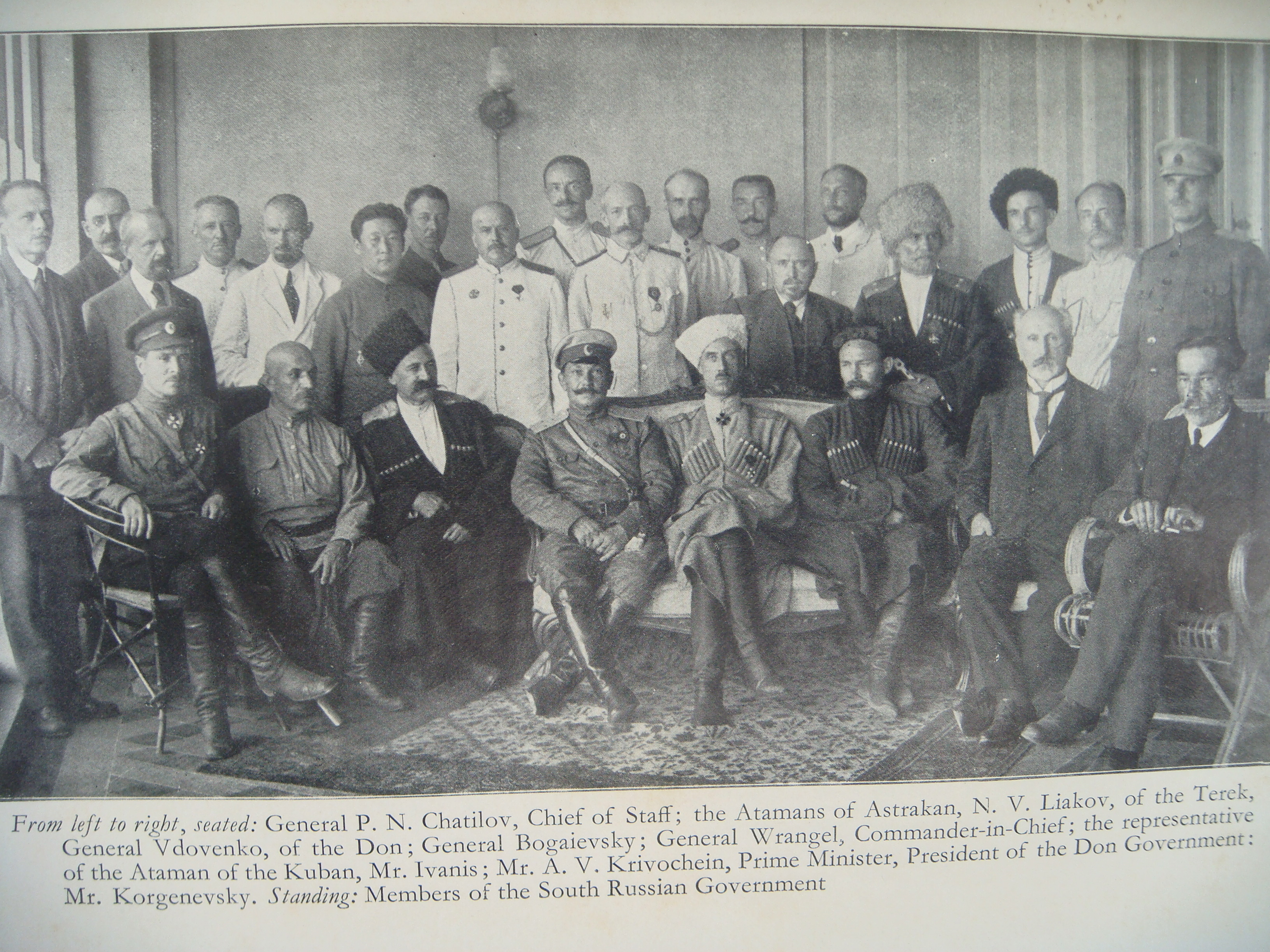 Picture of members of South Russian Government. 1920 y.